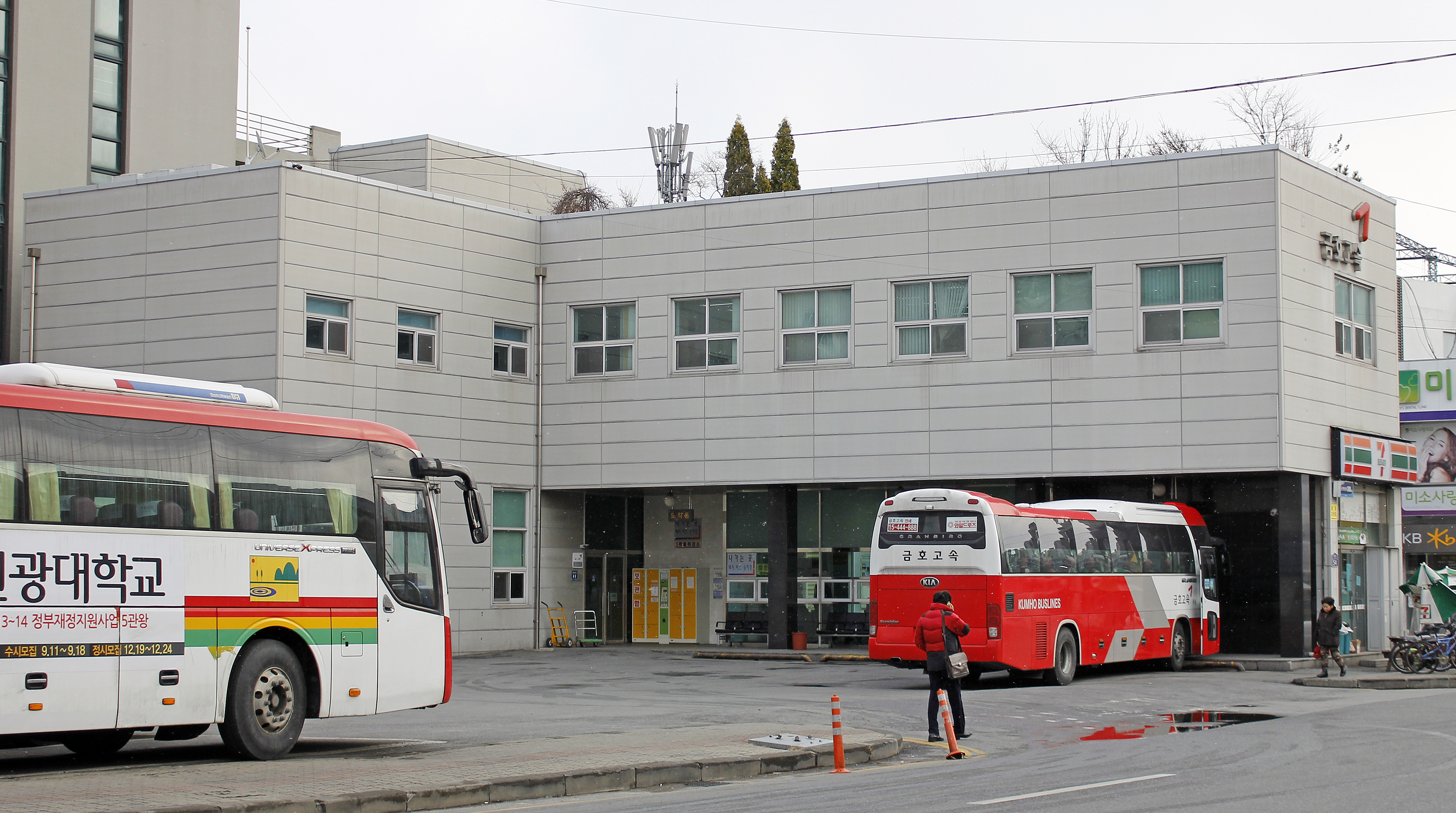 Yuseong Express Bus Terminal